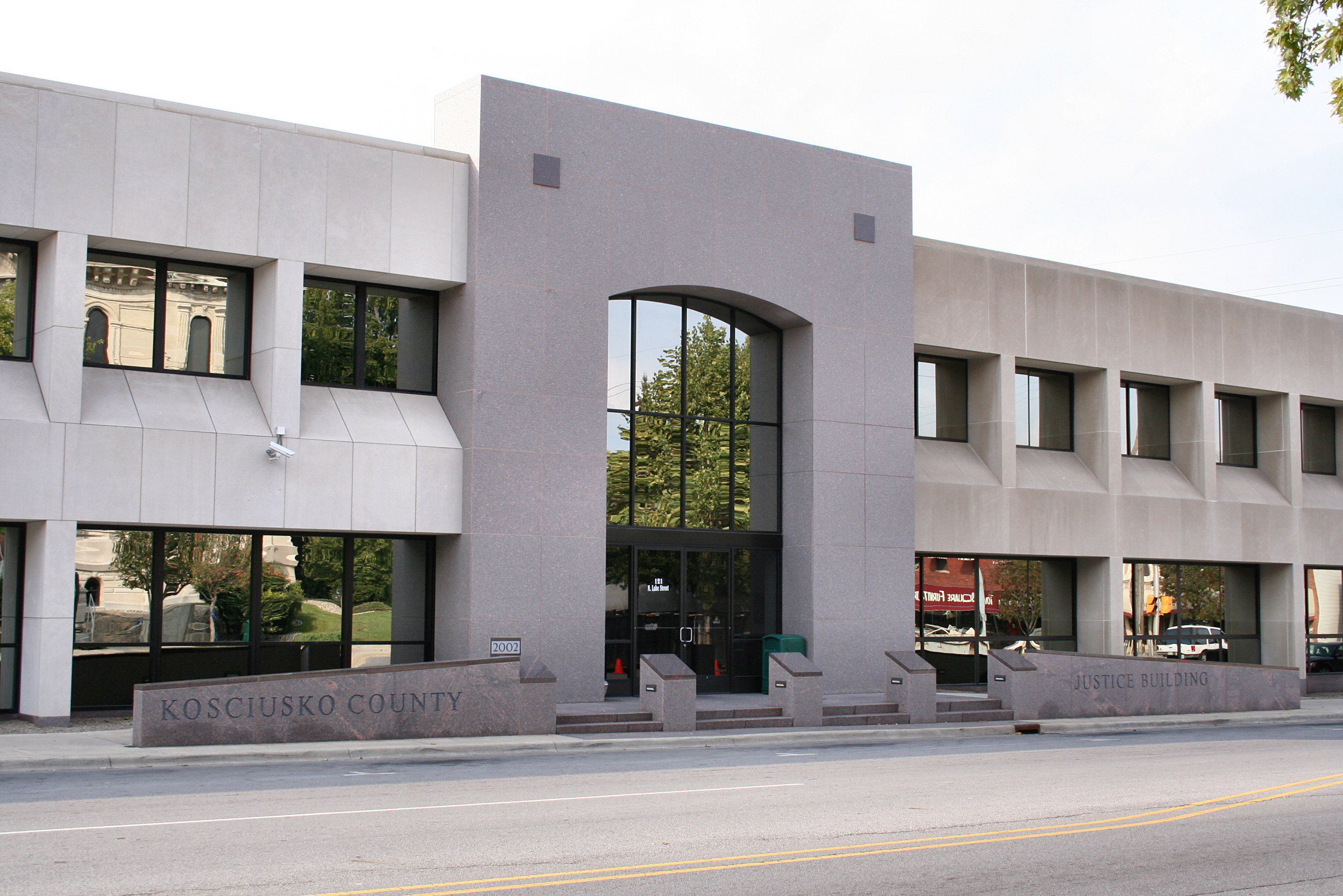 New county building in Warsaw, Indiana. Photo shot by Derek Jensen (Tysto), 2005-October-02